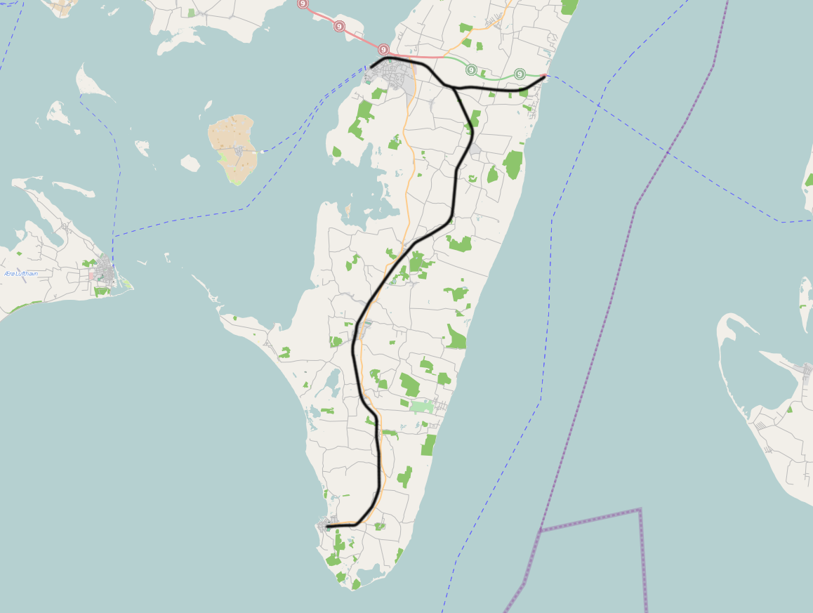 Railway line Rudkøbing - Bagenkop / Spodsbjerg